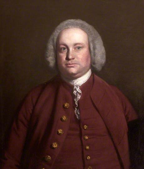 JamesBuller (1717-1765) of Morval in Cornwall and of Downes and King's Nympton in Devon, Member of Parliament for East Looe in Cornwall (1741-7) and for the County of Cornwall (1748-1765). Portrait by Sir Joshua Reynolds (1723-1792), collection of trustees of Antony House, Cornwall.